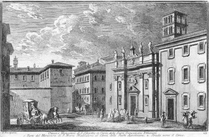 1) Nunnery of S. Maria Maddalena; 2) Street leading to Via del Corso.